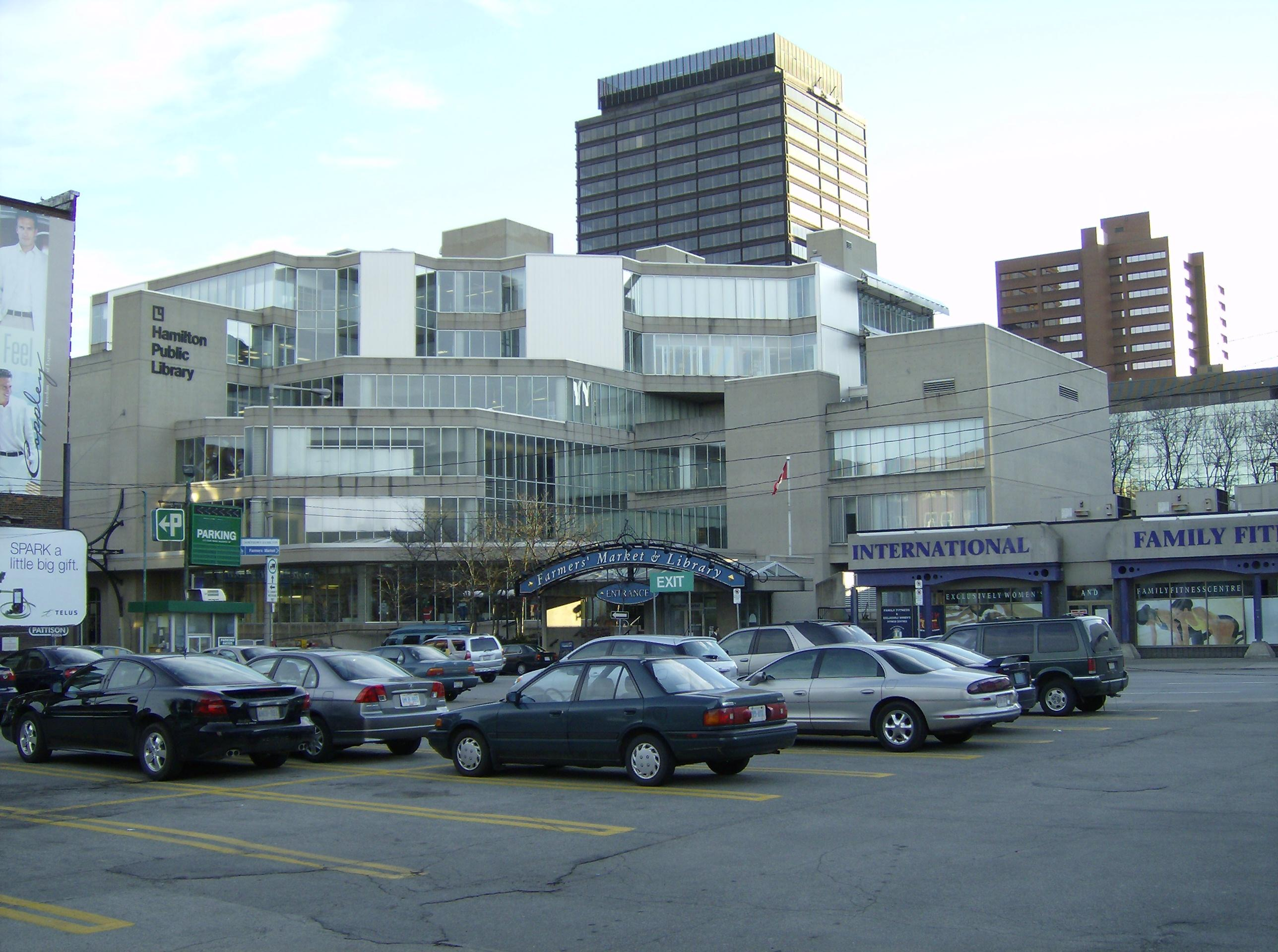 self made